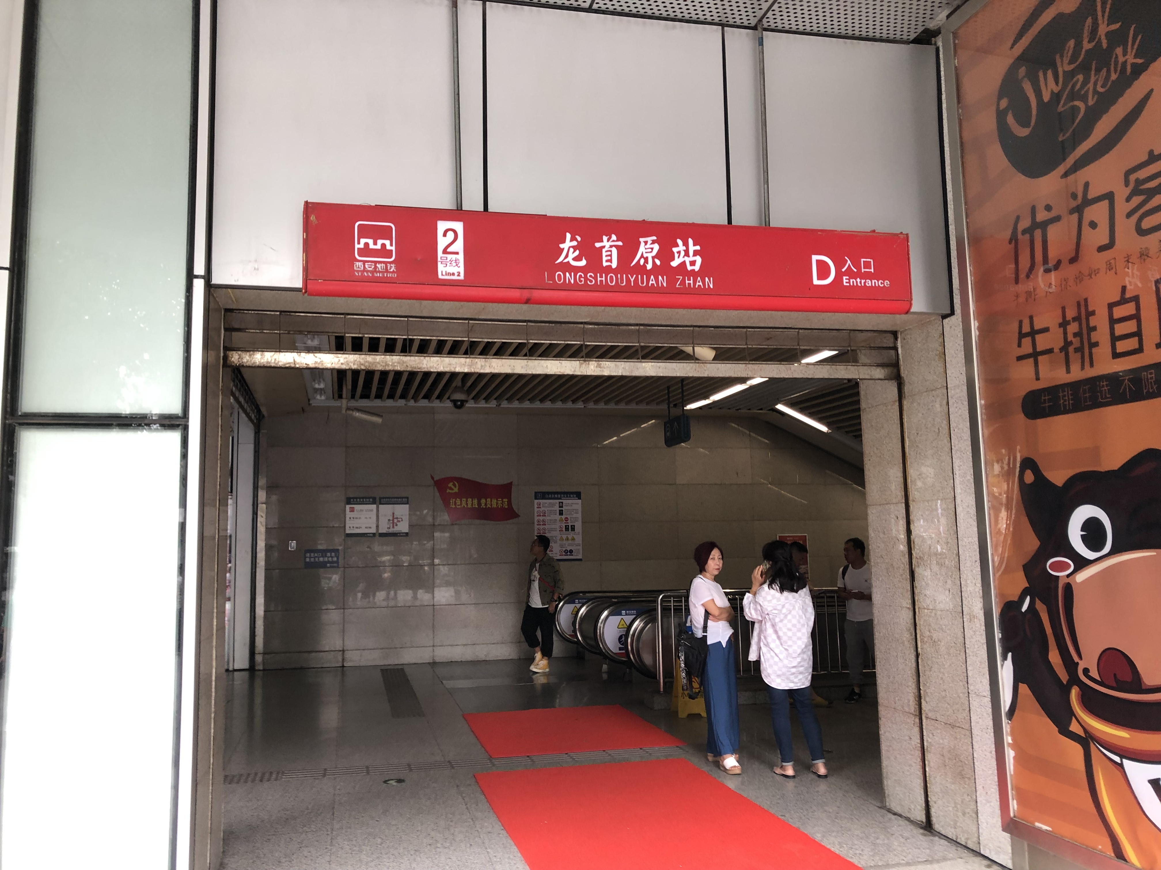 Longshouyuan Station's building